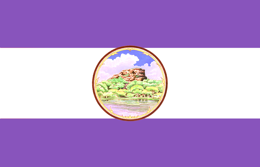 Flag of Bueng Kan Province